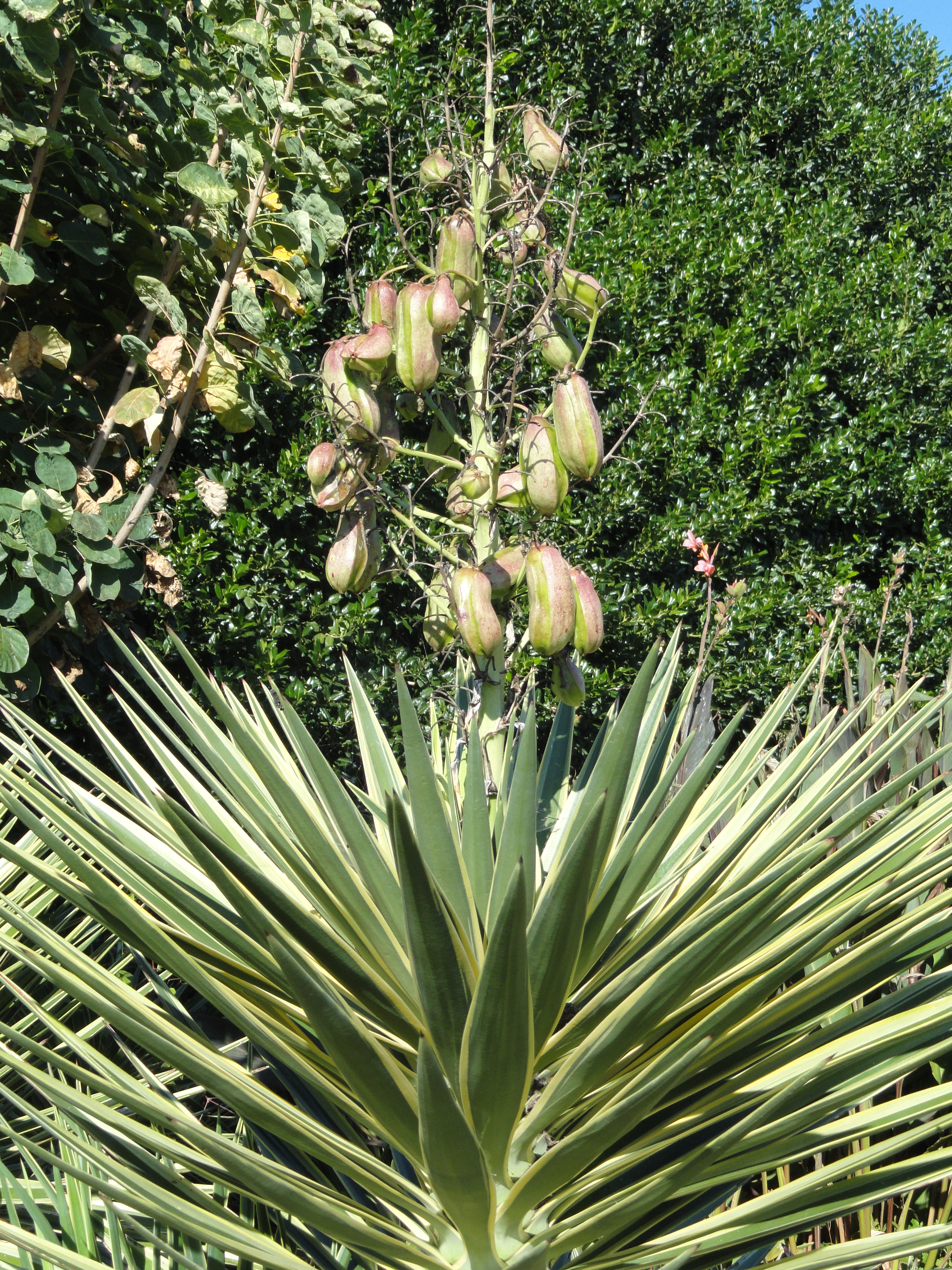 Yucca aloifolia specimen in the J. C. Raulston Arboretum (North Carolina State University), 4415 Beryl Road, Raleigh, North Carolina, USA.